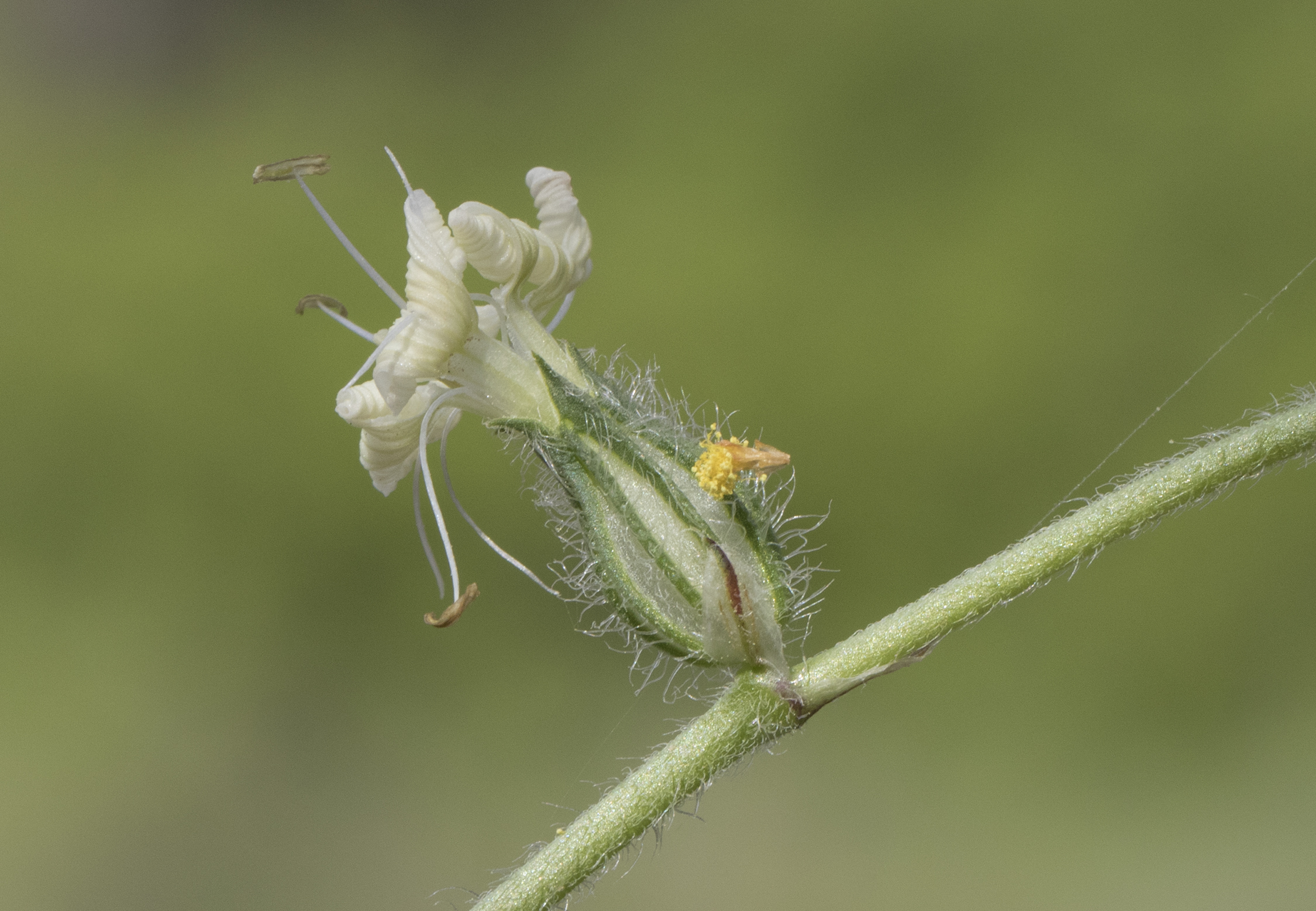 Forked catchfly (Silene dichotoma). Balcalı - Adana, Turkey.